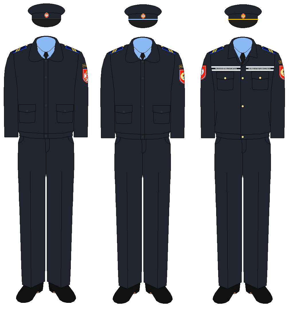 Police officers uniforms between 2003 and 2012 in Republika Srpska. All uniforms are in rank of sergeant. First uniform is uniform of police officer from 2003 or 2004 till maybe 2007 or 2008, before the Seal of Republika Srpska replaced old coat of arms of Republika Srpska with double-headed eagle that was proclaimed as unconstitutional by Constitution Court of Bosnia and Herzegovina. Second uniform is same type uniform and only changes are insignia on cap and patch with new seal of Republika Srpska. Third uniform is uniform from 2011 or 2012 till its change by next generation of uniform on summer 2014. This uniform had also amblem of Police of Republika Srpska on right arm. Pockets are moved on breasts, buttons material was imitation of gold and on breasts there is light-reflecting two stripes with enscription "Police of Republika Srpska" on right breast and on left "Полиција Републике Српске" (translit.: Policija Republike Srpske).